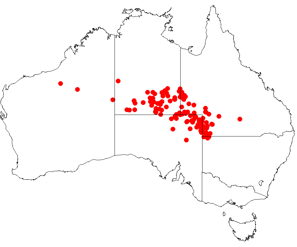 Hakea eyreana Occurrence data downloaded from Australasian Virtual Herbarium on 22 November 2018 using